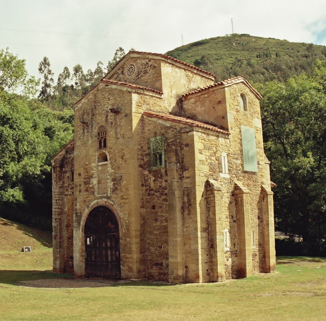 Pre-Romanesque church San Miguel de Lillo, Oviedo.